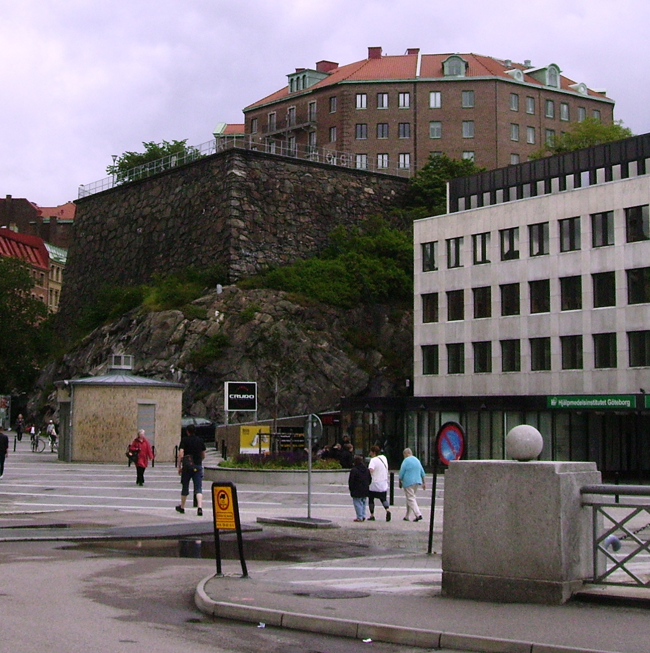 Picture of Carolus Rex in Gothenburg